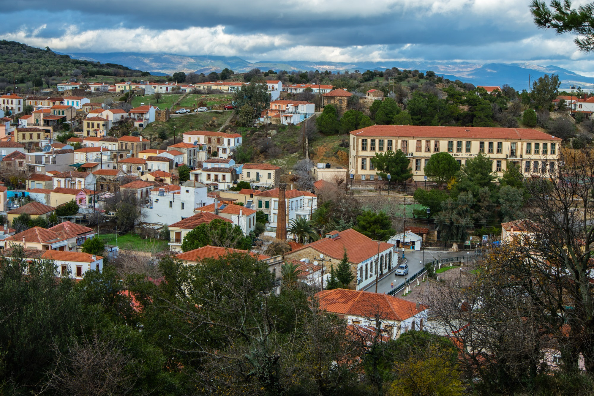 Panoramic view of Polichnitos. On the right the primary school of Polichnitos.